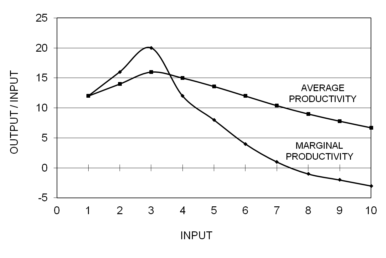 Average and marginal productivity